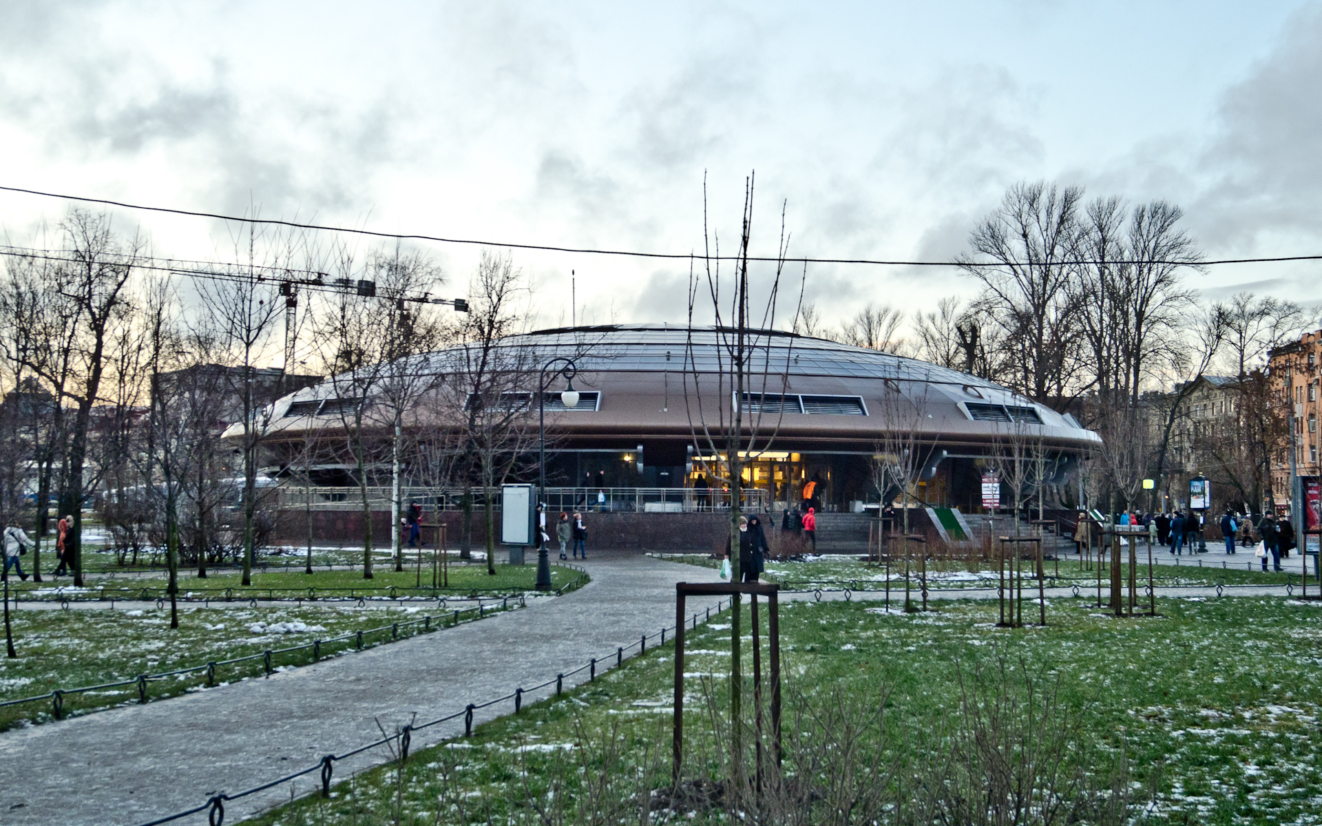 Gorkovskaya station of Saint Petersburg Subway, pavilion